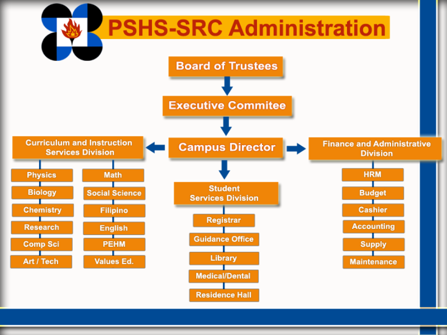 this is the administration of PSHS-SRC